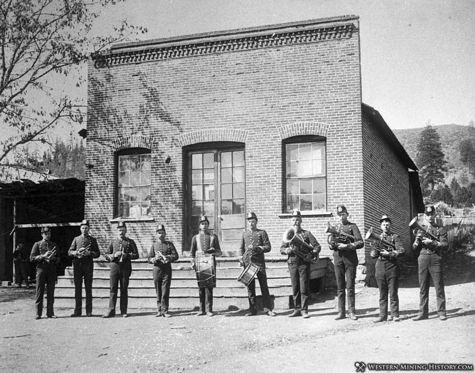 Oro Fino Band in front of a public building in Oro Fino, California ca 1889